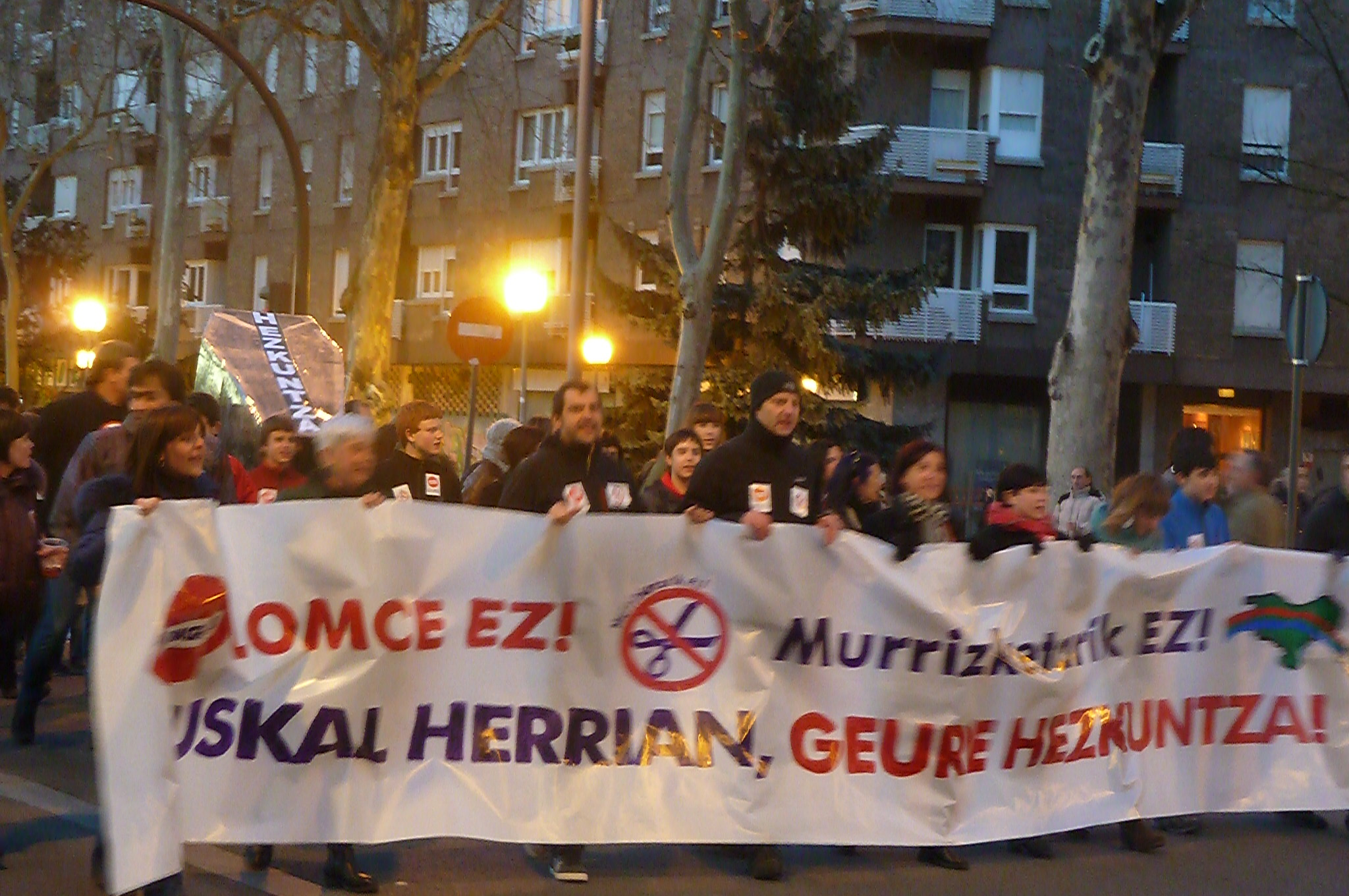 Protest against LOMCE in Gasteiz